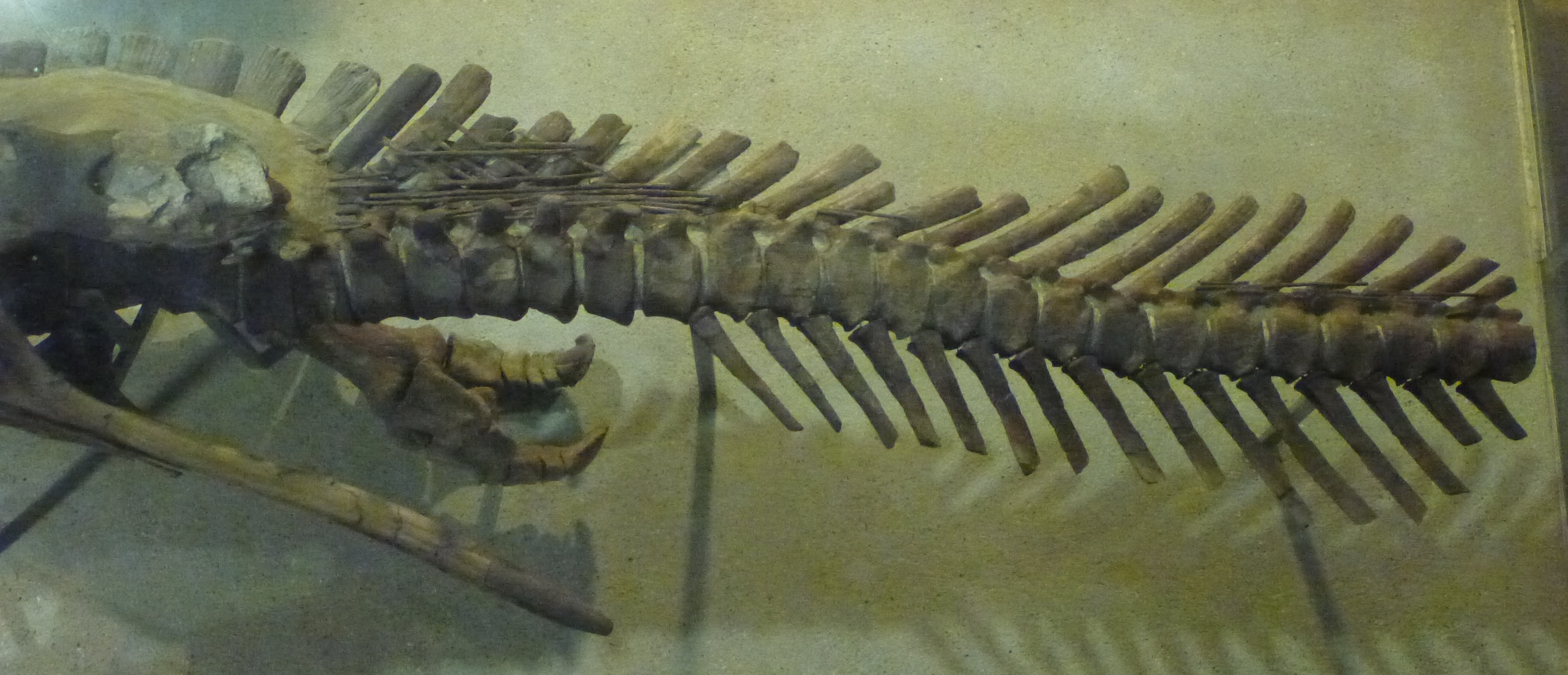 The Edmontosaurus mummy SMF R 4036 on display at the Senckenberg Museum, Frankfurt, Germany.